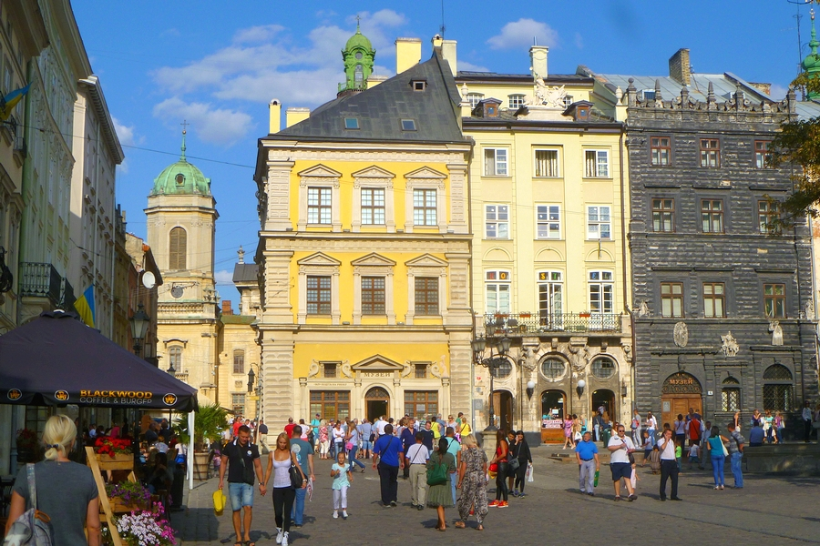 Rynok Square in Lviv, August 2015